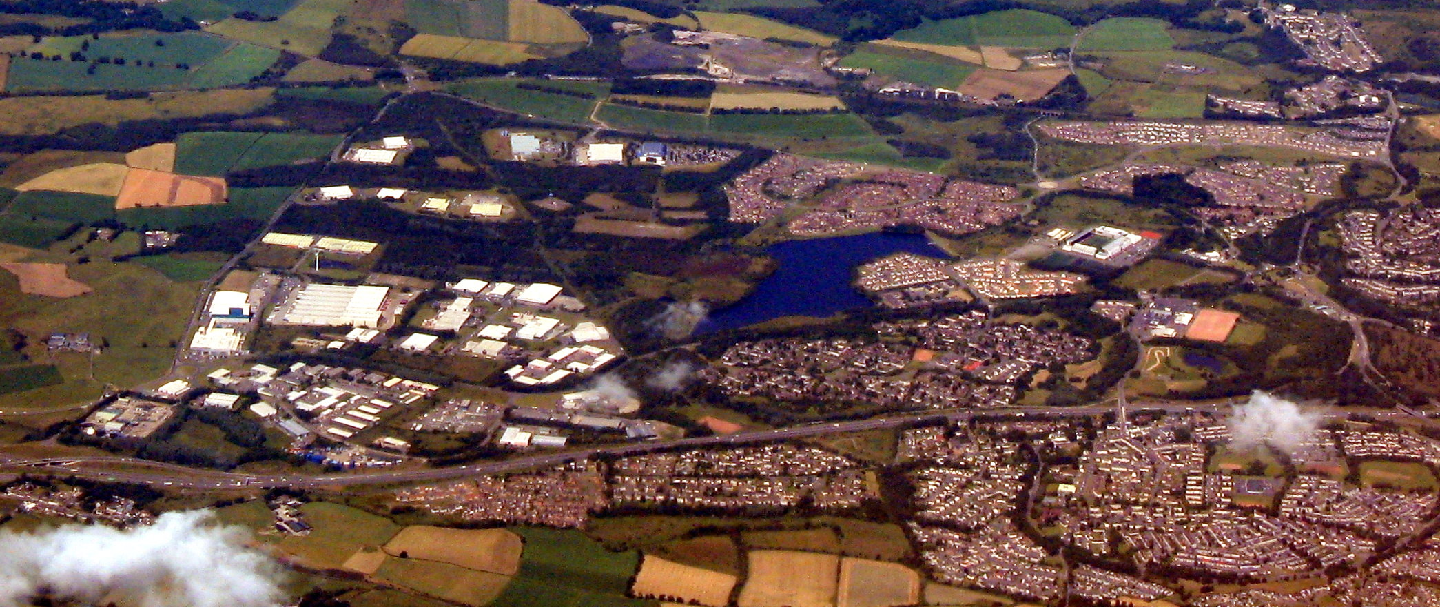 Cropped and retouched version showing Condorrat, Dalshannon and Westfield